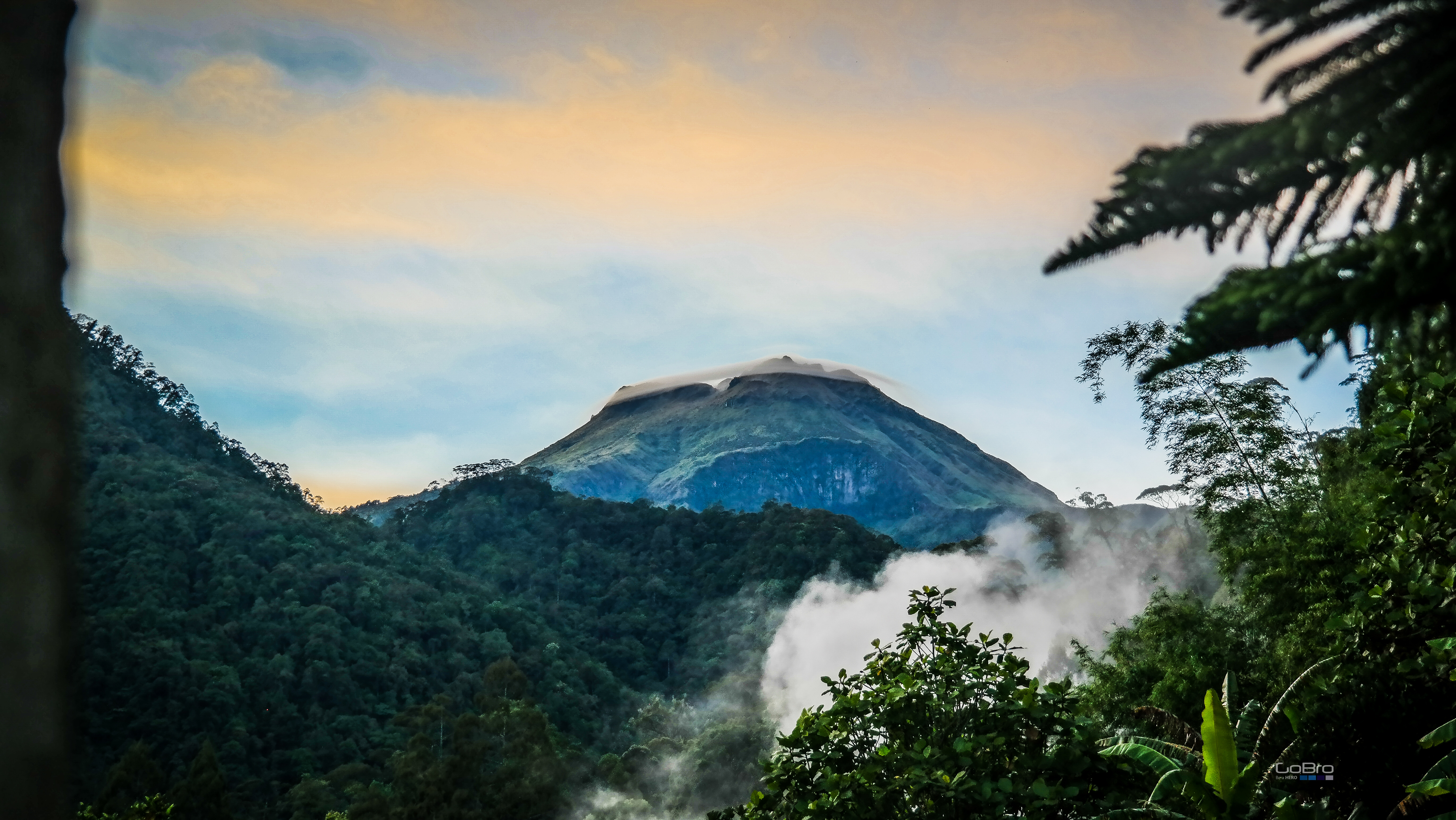 Mount Apo